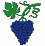 Flag of Thal, Canton of St. Gallen - Flago de Thal, Kantono de Sankt-Galo - Fahne von Thal, Kanton St. Gallen